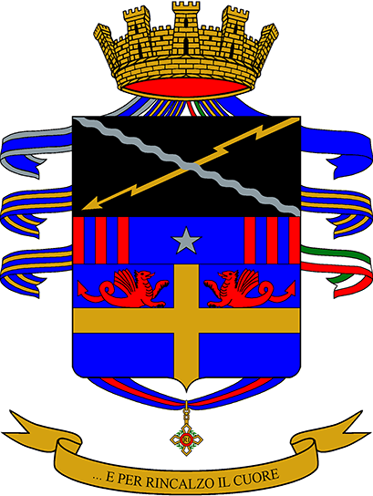 Coat of Arms of the 183° Paratrooper (Paracadutisti) Regiment; Italian Army.